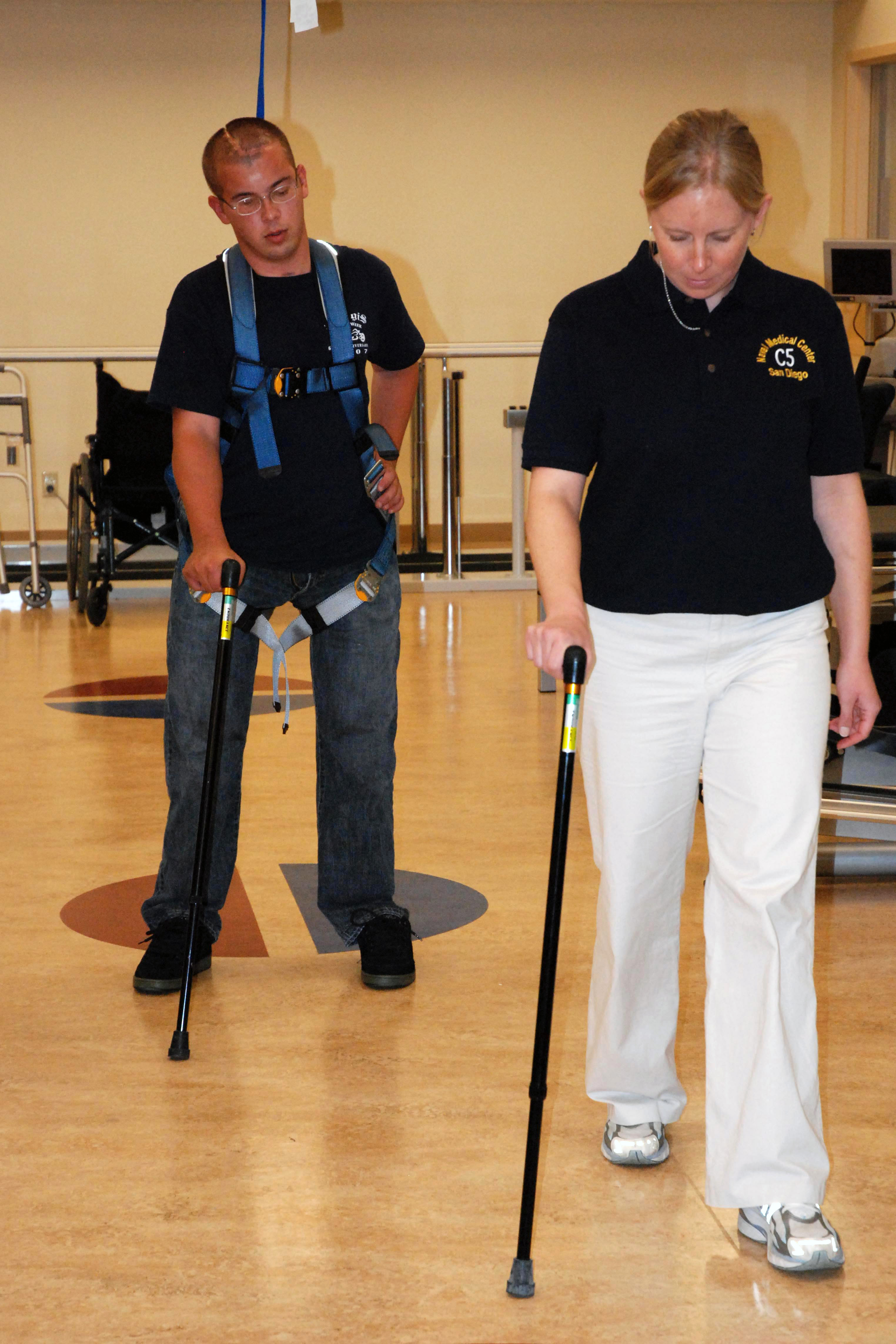 SAN DIEGO (Oct. 15, 2007) - Retired Marine Corps Cpl. Timothy Jeffers walks on his prosthetic legs while using the hands-free harness walking gait training device during a therapy session in the new Comprehensive Combat and Complex Casualty Care (C5) facility. C5 is a program of care that manages severely injured or ill patients from medical evacuation through in patient care, out patient rehabilitation, and eventual return to active duty or transition from the military. U.S. Navy photo by Mass Communication Specialist 2nd Class Greg Mitchell (RELEASED)